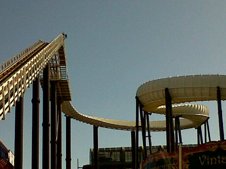 track and lift hill of avalanche